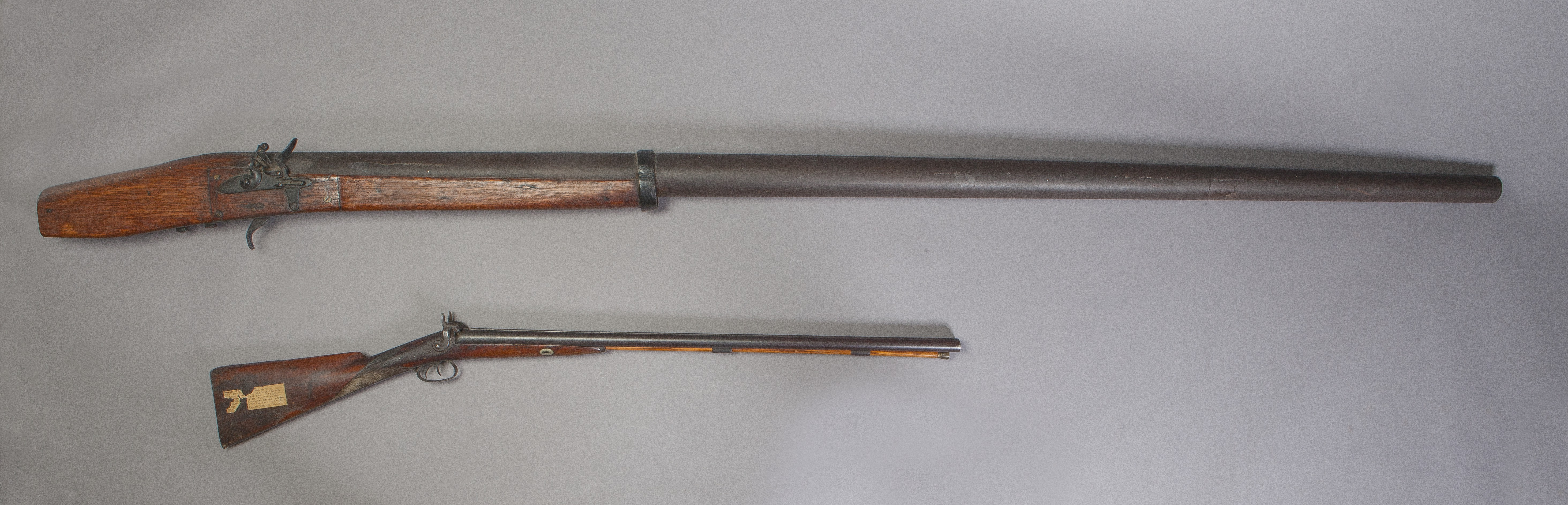 A very large flintlock shotgun--called a punt gun because it was mounted to a punt, or small boat--used for hunting flocks of waterfowl. This early one, with a lock marked "J.J. Henry / Boulton," was used on the Mississippi Flyway.Title: J. J. Henry Punt Gun Used on the Mississippi Flyway